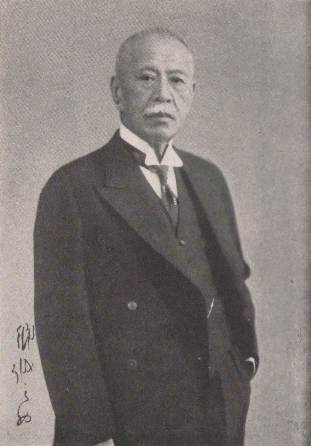 Portrait of Go Seinosuke (郷誠之助, 1865 – 1942)